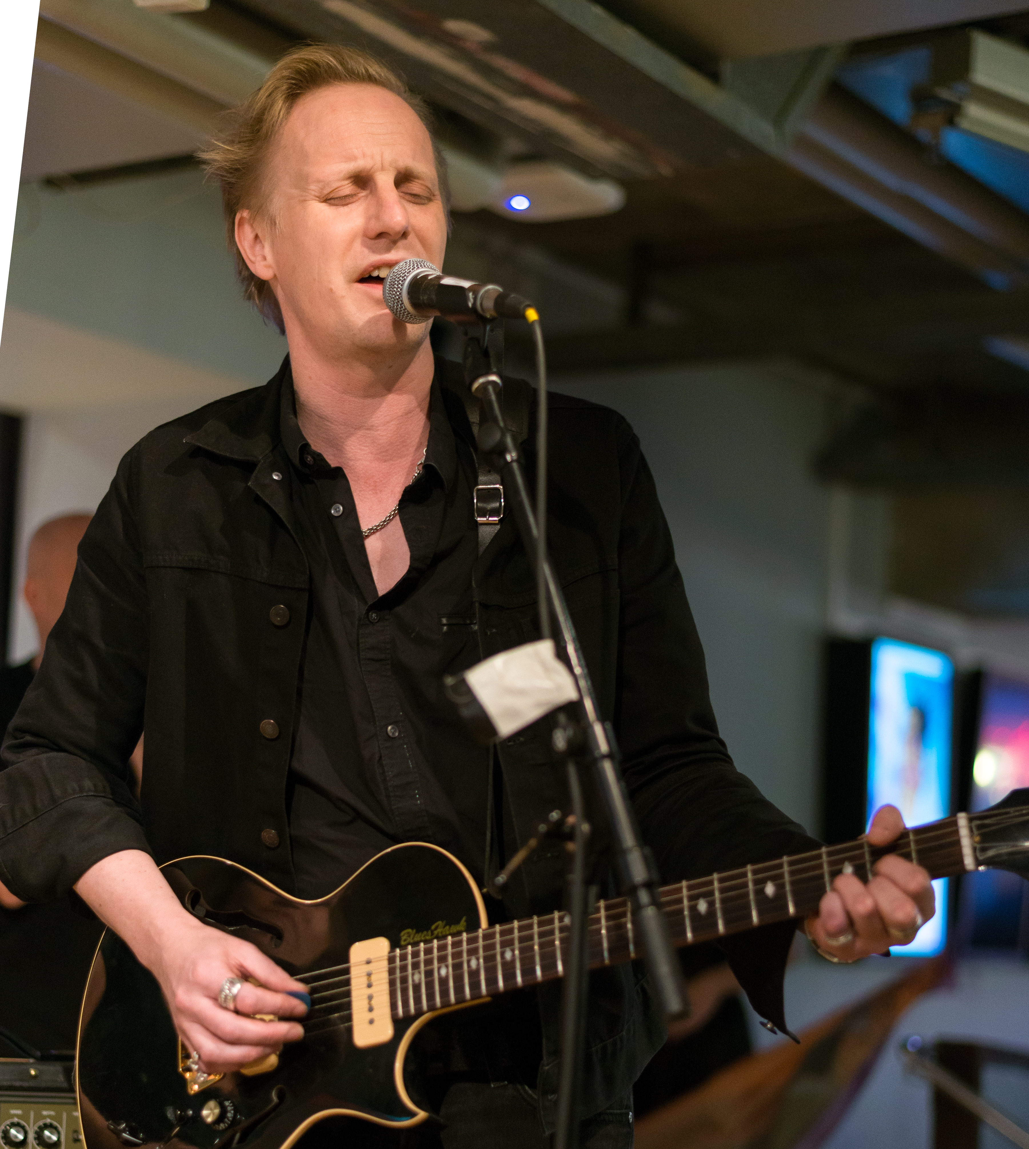 Lena Nordlund and Andreas Boonstra. During the Nobel Day, December 10, 2016, SR P1 broadcast the Science Radio and Culture Radio directly from Kulturhuset in Stockholm.